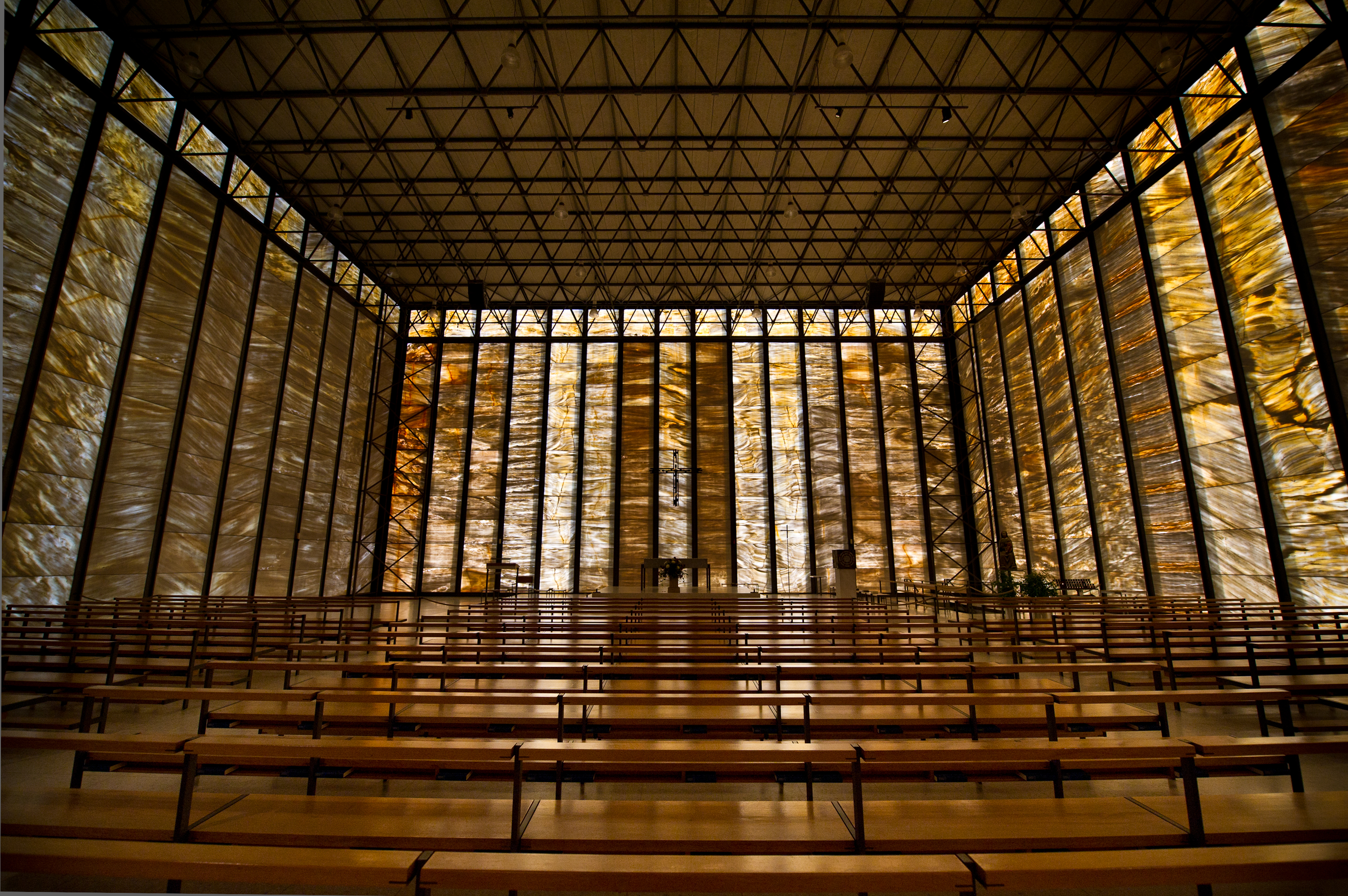 St. Pius Church, Meggen, LU, Switzerland.